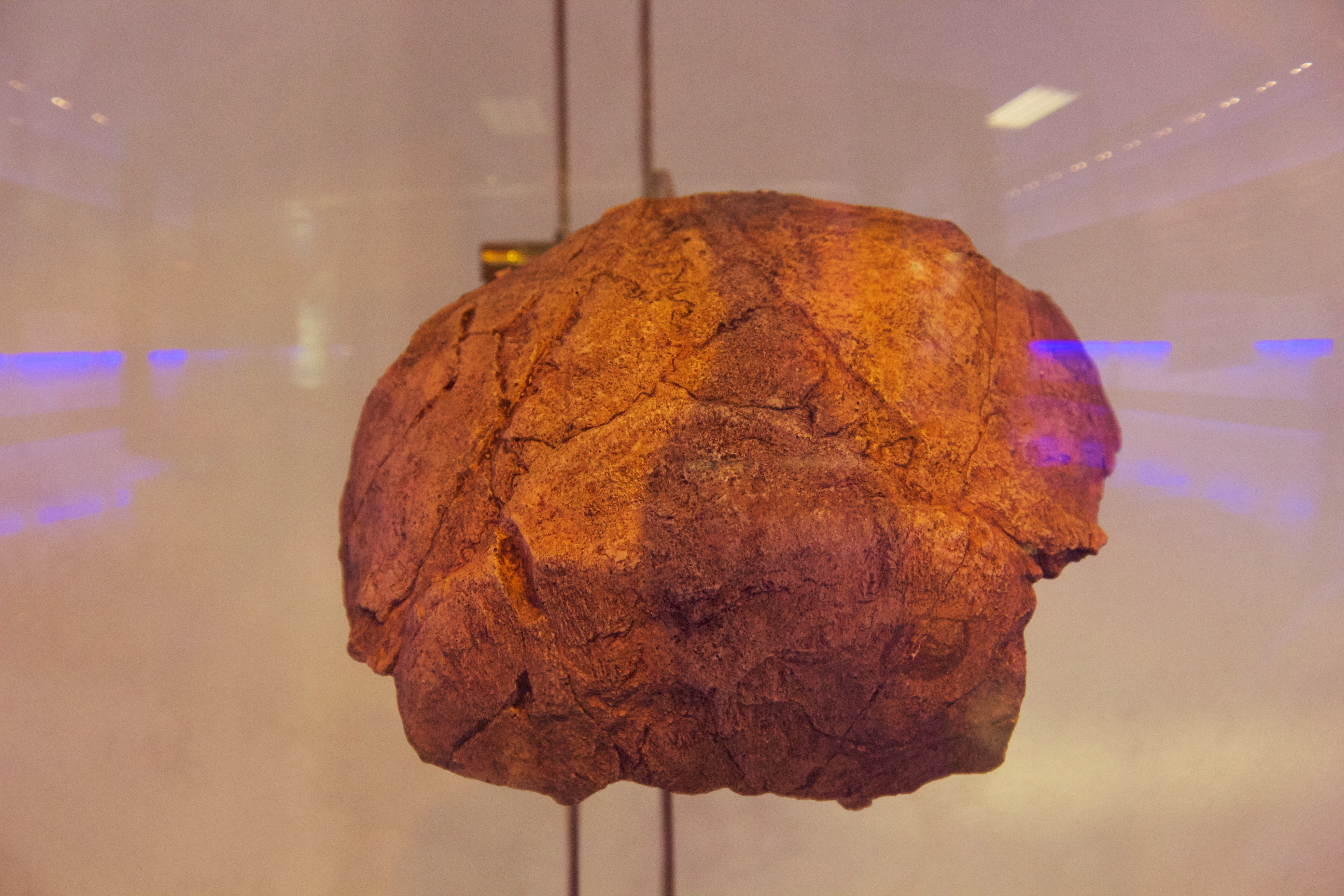 Australopithecus africanus, back of cranium, (MLD 1), Makapansgat, 1947